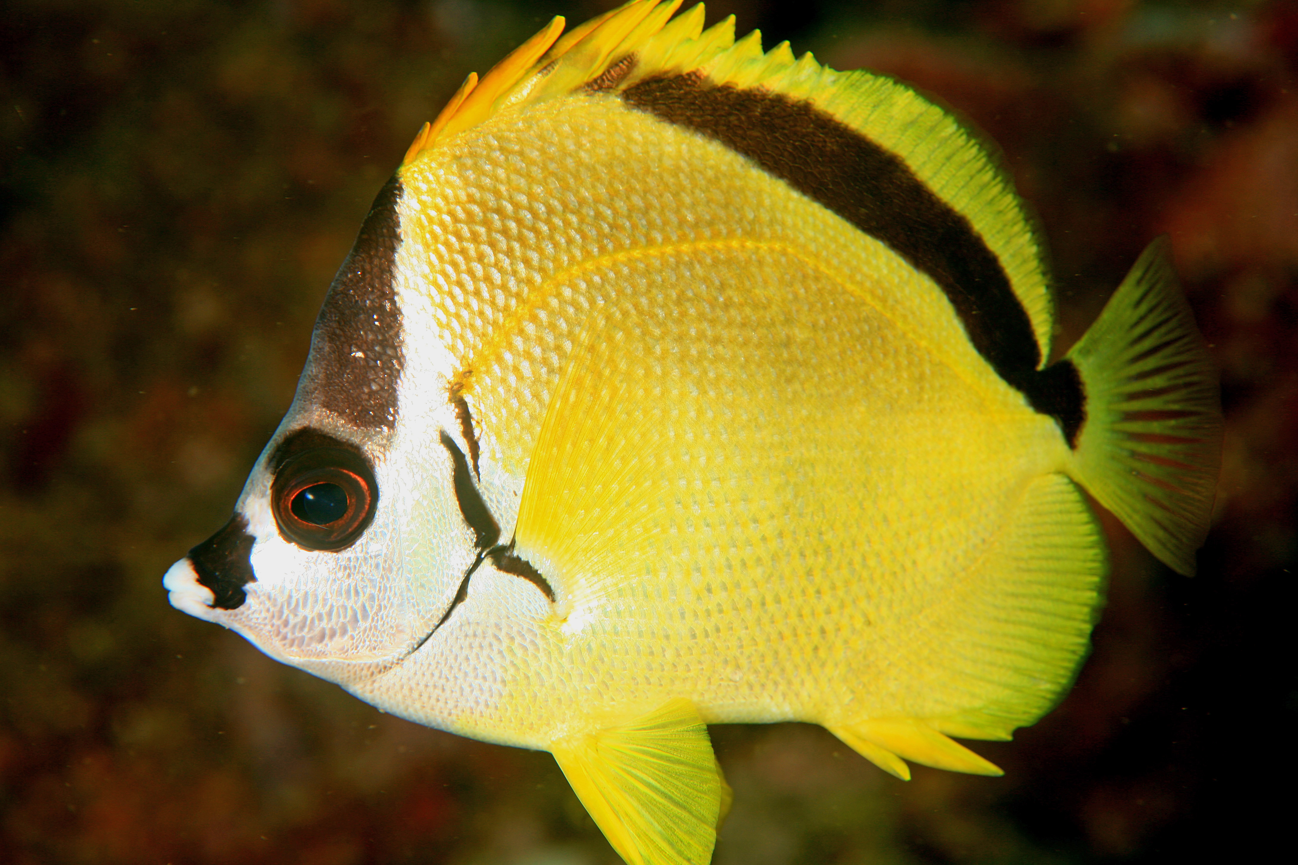 Johnrandallia nigrirostris Shot at Machete dive site in the Coiba National Park, Panama.